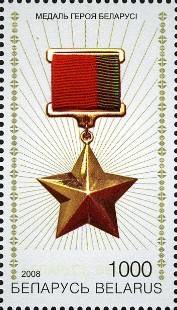 Stemp medal «Golden Star» of Belarus, 2008